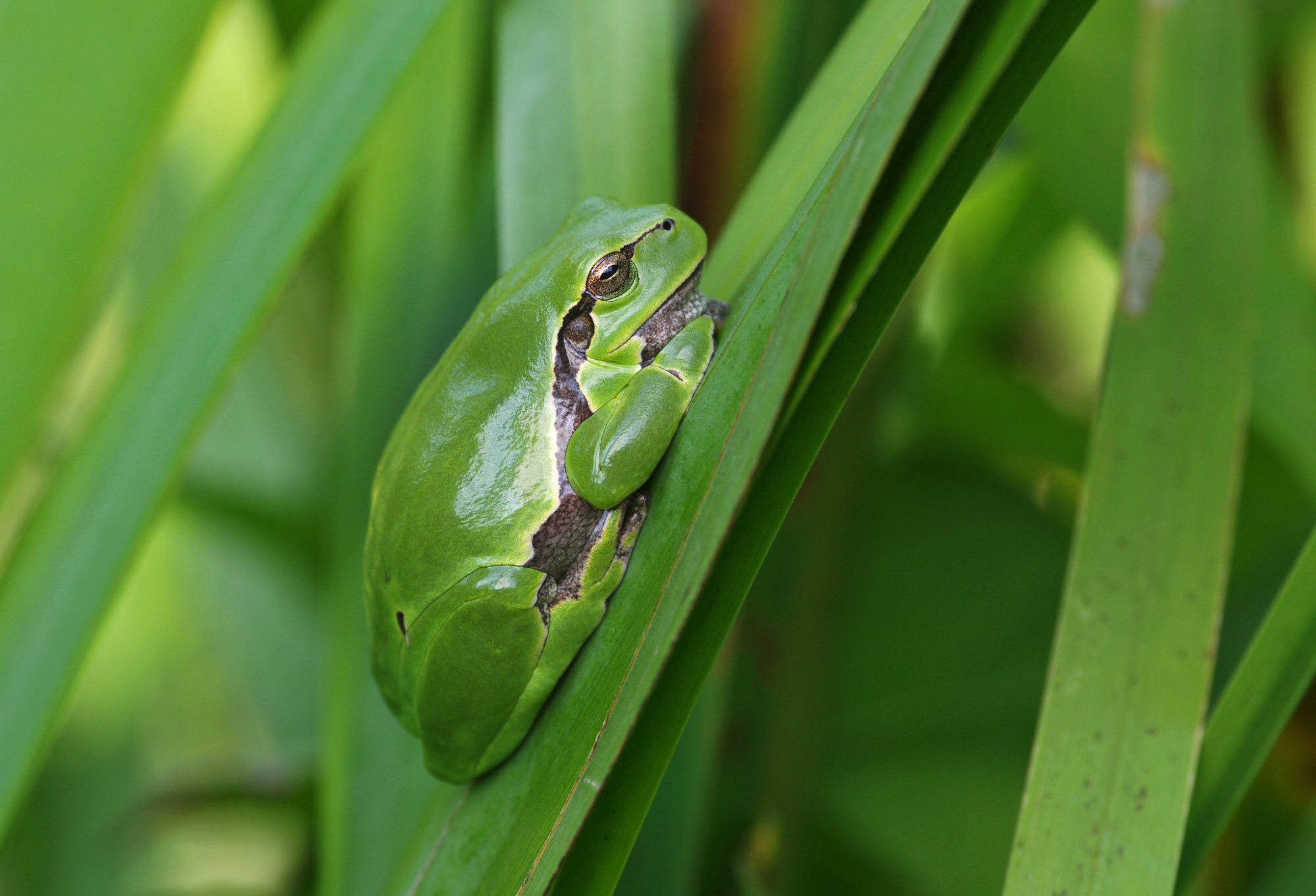 Adult but not yet full-grown European Tree Frog (Hyla arborea), sitting on leaves while resting and sunbathing. SVL: ~3.5 cm.